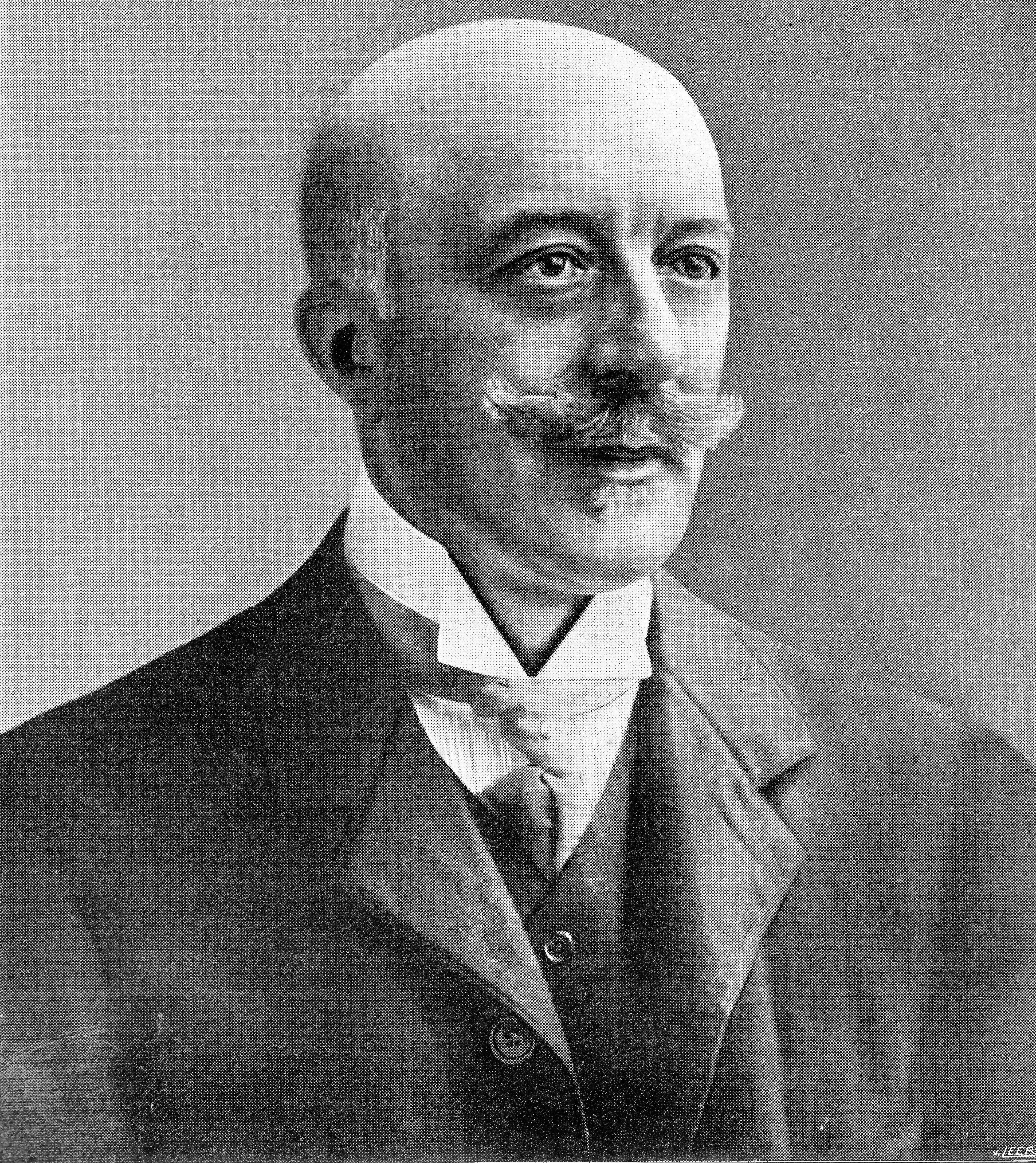 Cyriel Buysse